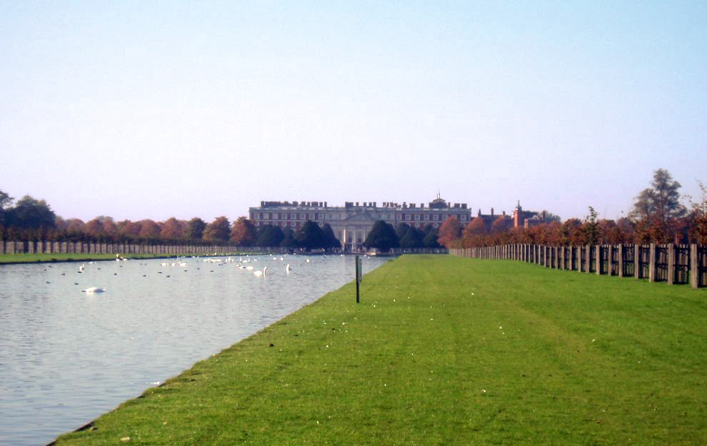 Hampton Court, from the long lake in Hampton Court Park